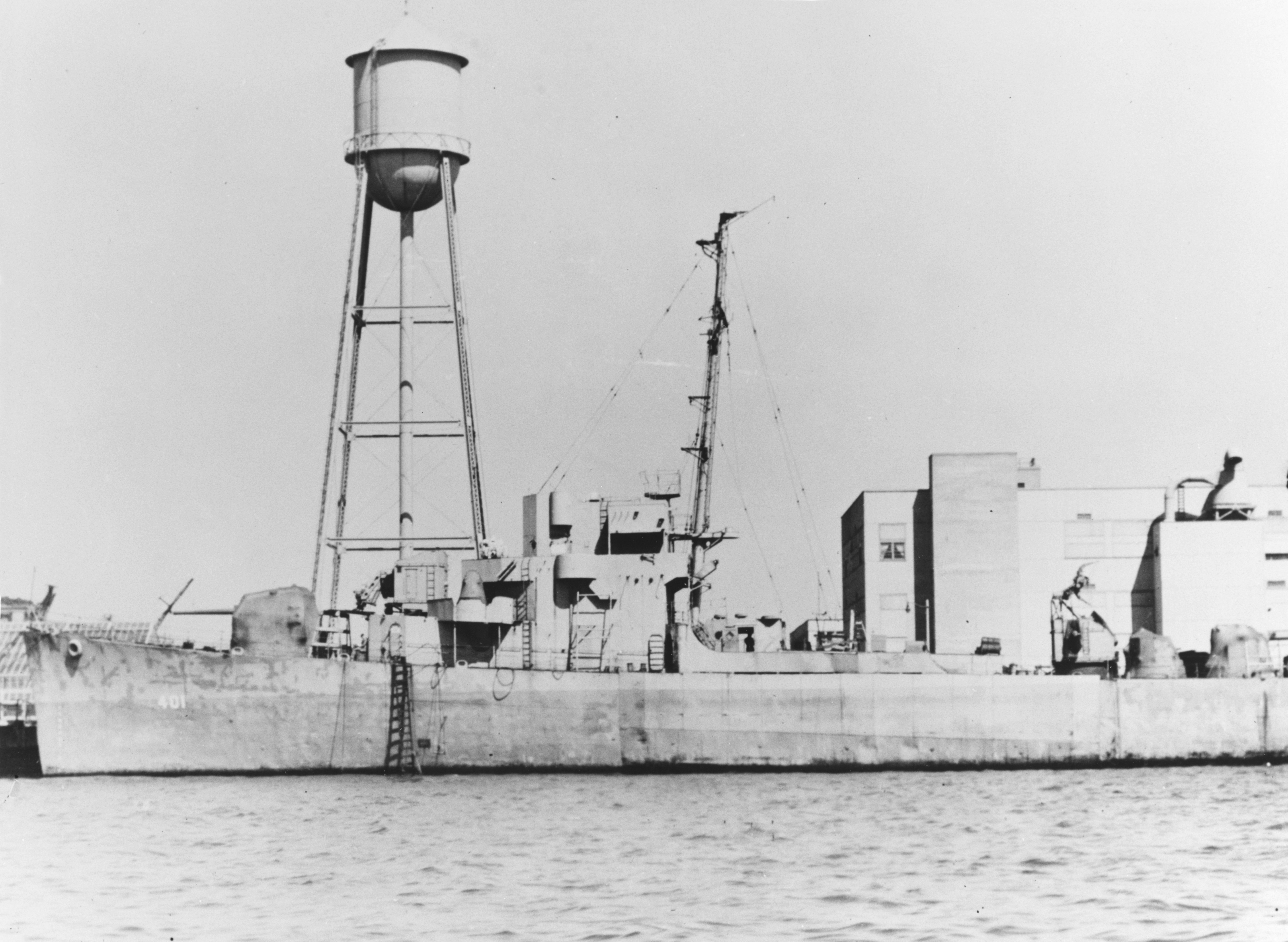 The U.S. Navy destroyer escort USS Holder (DE-401) mothballed, prior to being sold for scrap in 1947. She had been torpedoed amidships in 1944, and cannibalized. Note the huge patch amidships where she had been torpedoed. Her hulk had apparently been used as some kind of weapons test platform, as she is carrying a 127mm/38 gun, Mk 33 and Mk 37 gun directors and other devices not fitted when she was active.